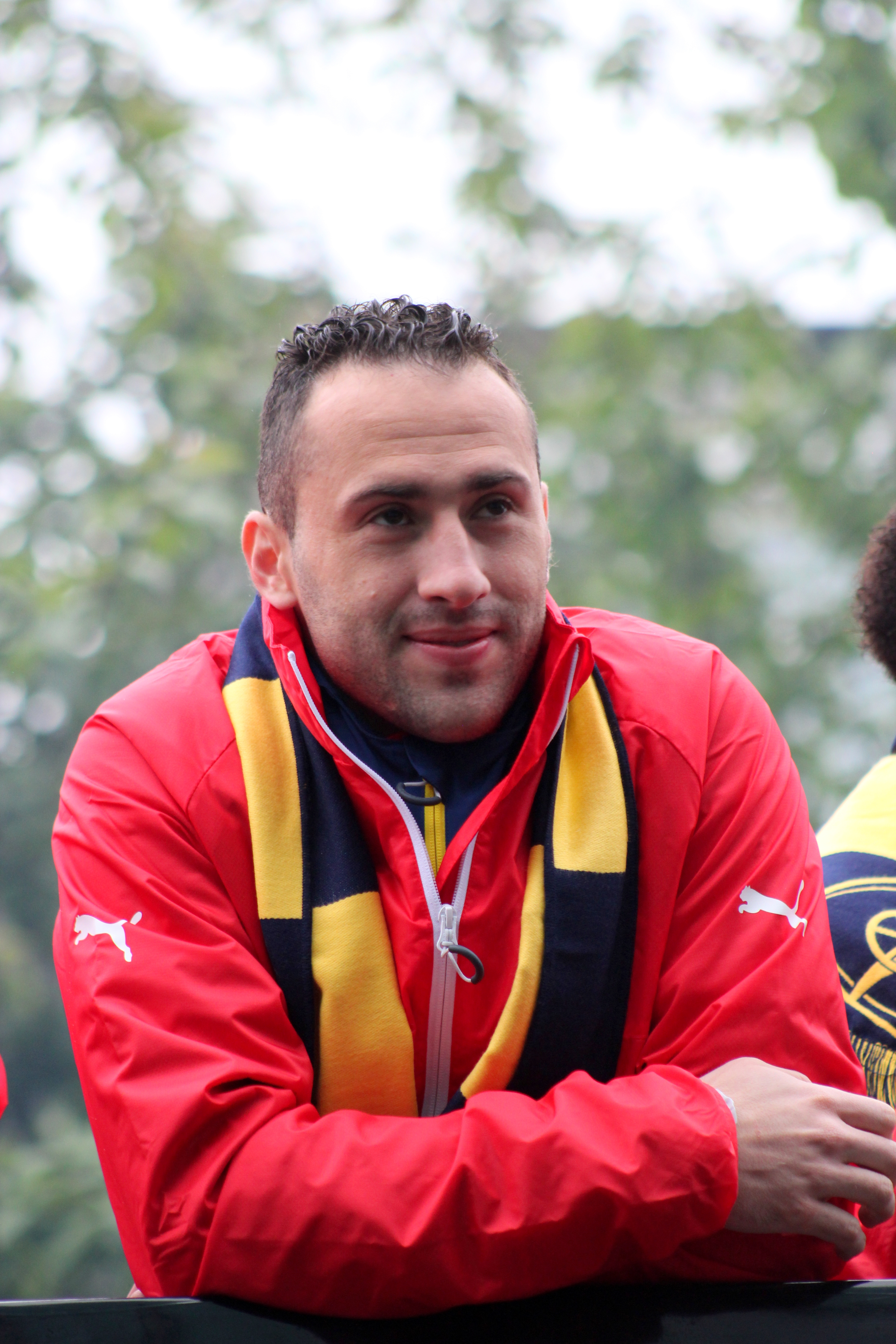 David Ospina